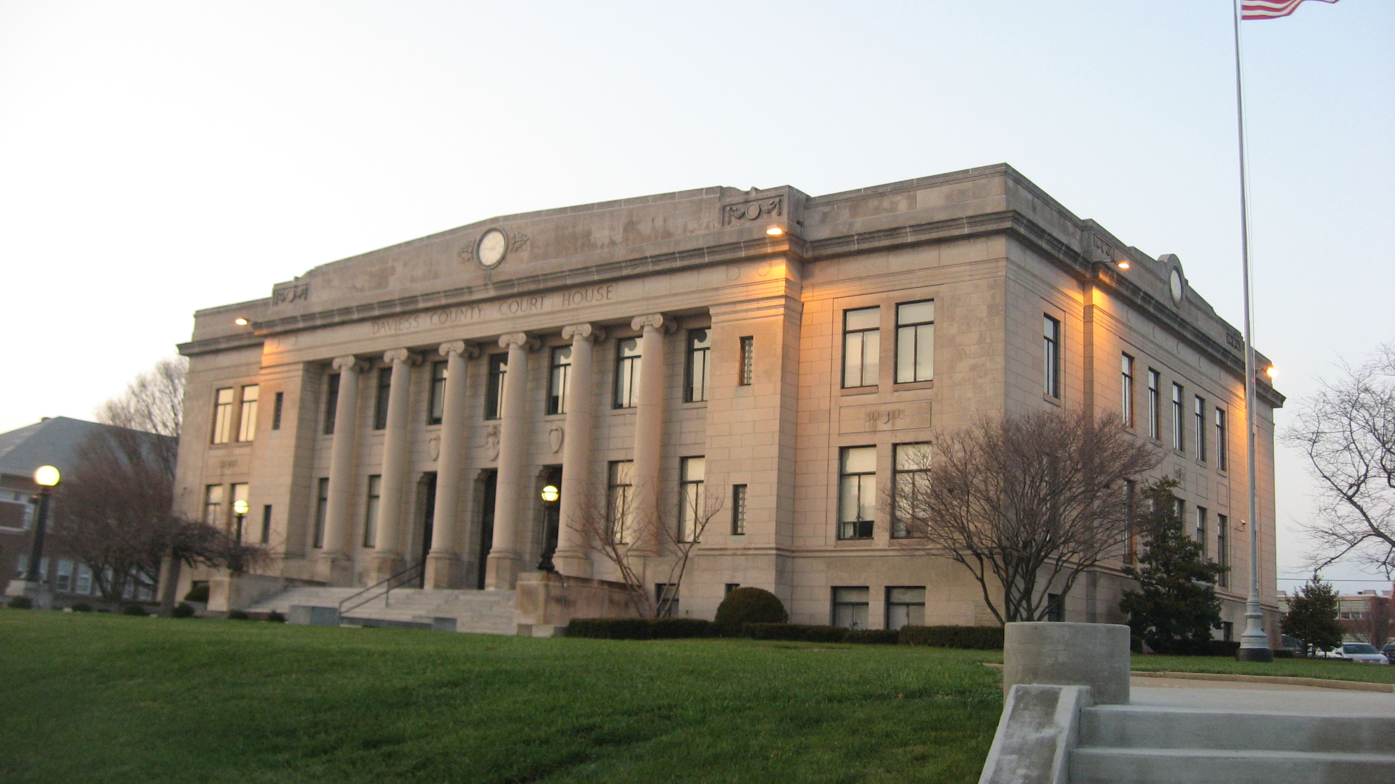 Front of the Daviess County Courthouse, located at 200 E. Walnut Street in Washington, Indiana, United States. Built in 1927, it is listed on the National Register of Historic Places.